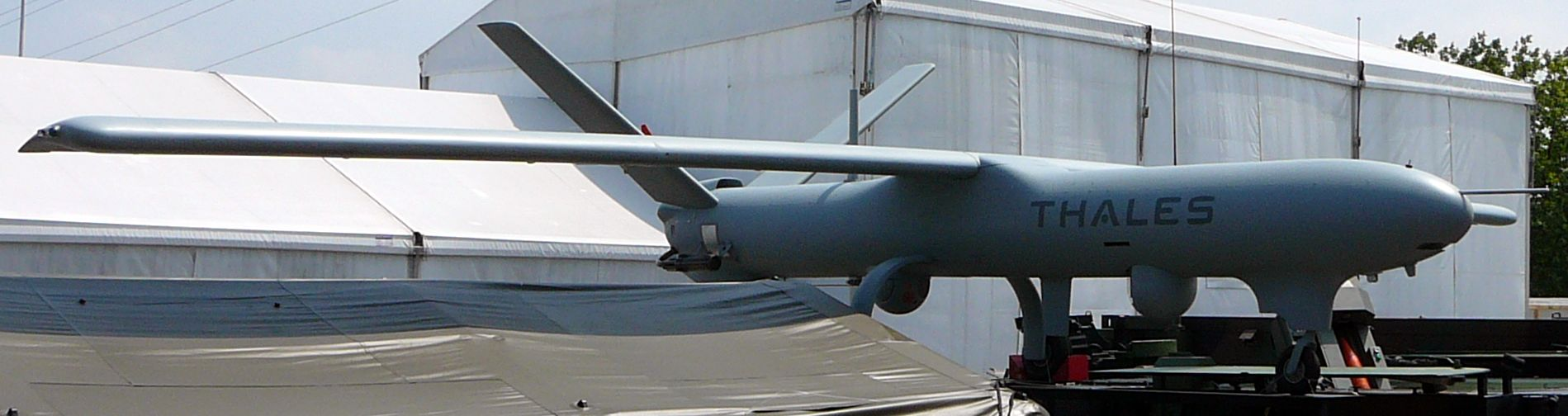 Watchkeeper UAV